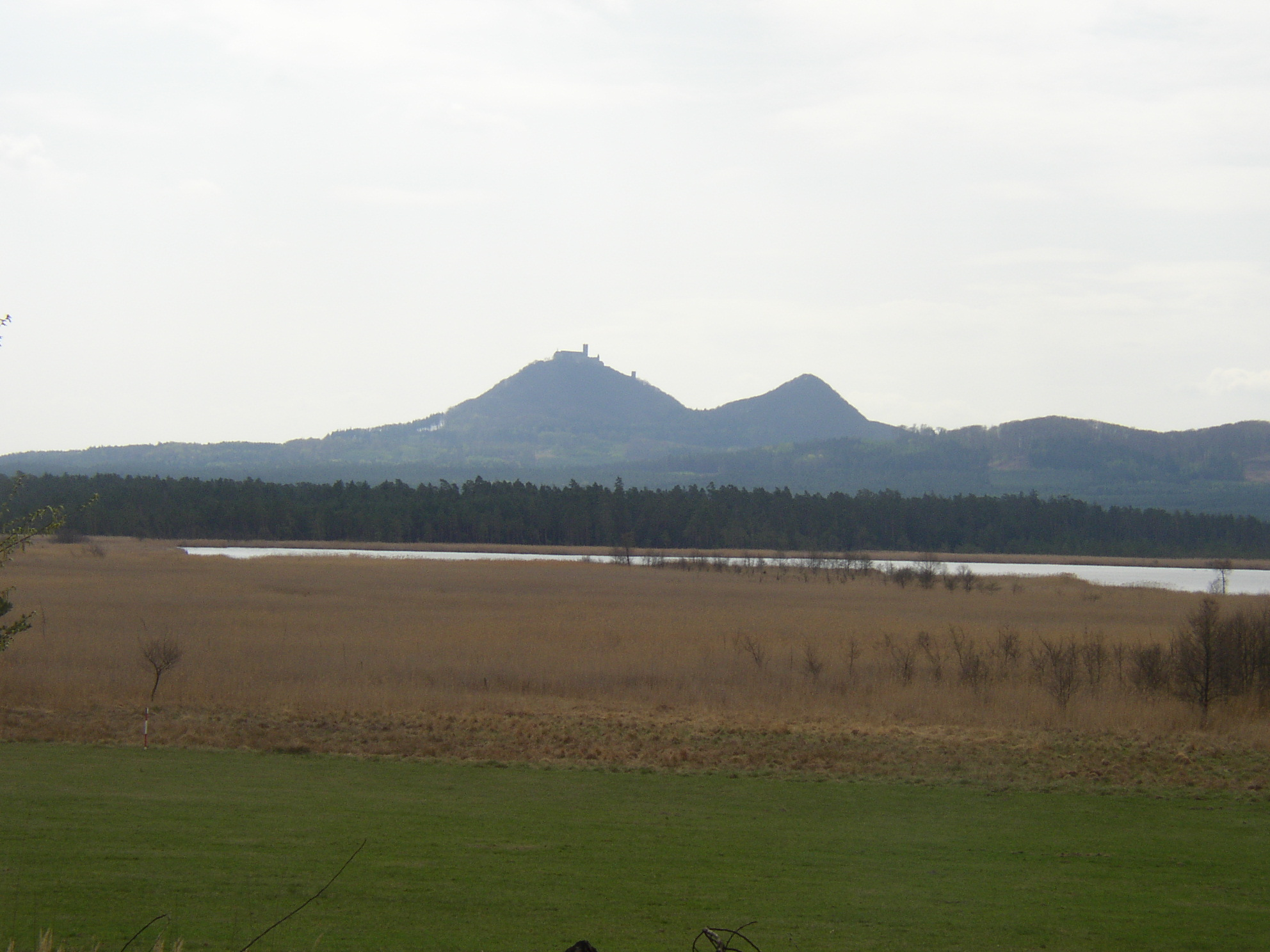 Břehyně - Pecopala National Nature Reserve east of Doksy town, Česká Lípa District, Czech Republic. A view from Doksy - Mimoň road in south direction over eastern end of Břehyňský rybník (Břehyně Pond) towards Bezděz.